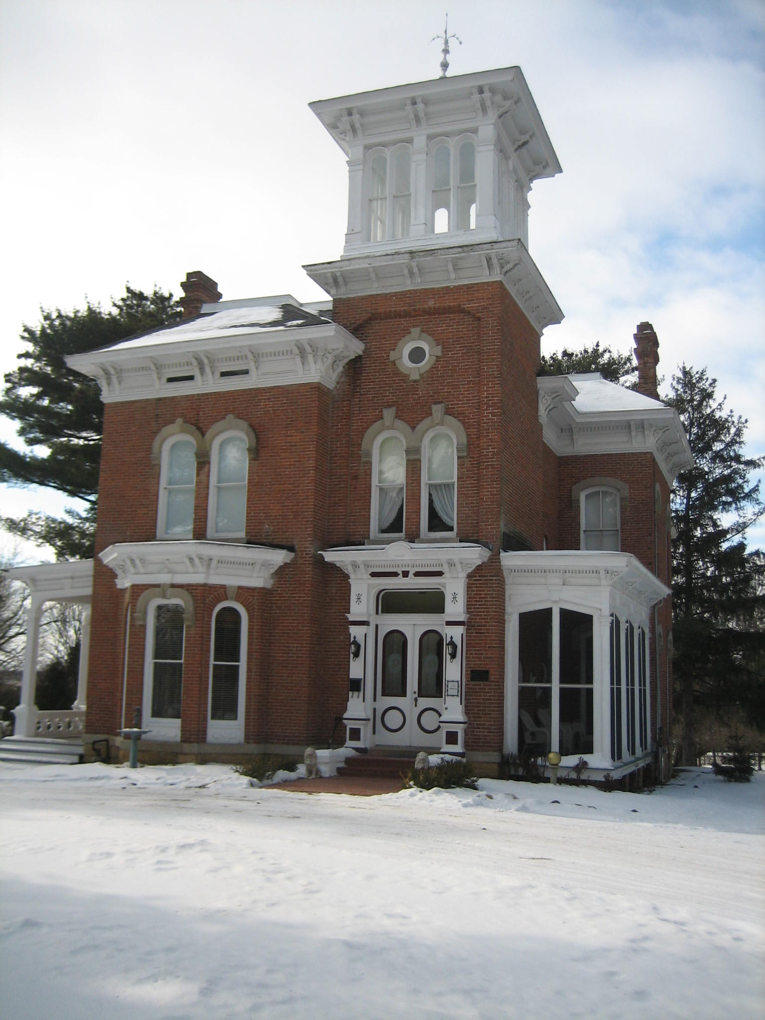 Pinehill Inn, Oregon, Illinois. National Register of Historic Places.